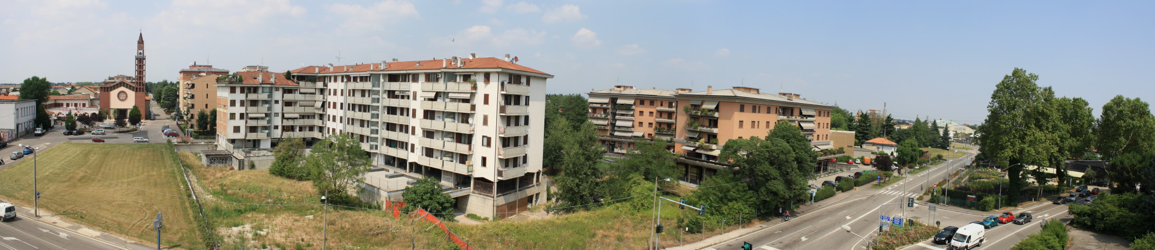 Panoramic view of the hamlet Buon Gesù in Olgiate Olona, Italy.